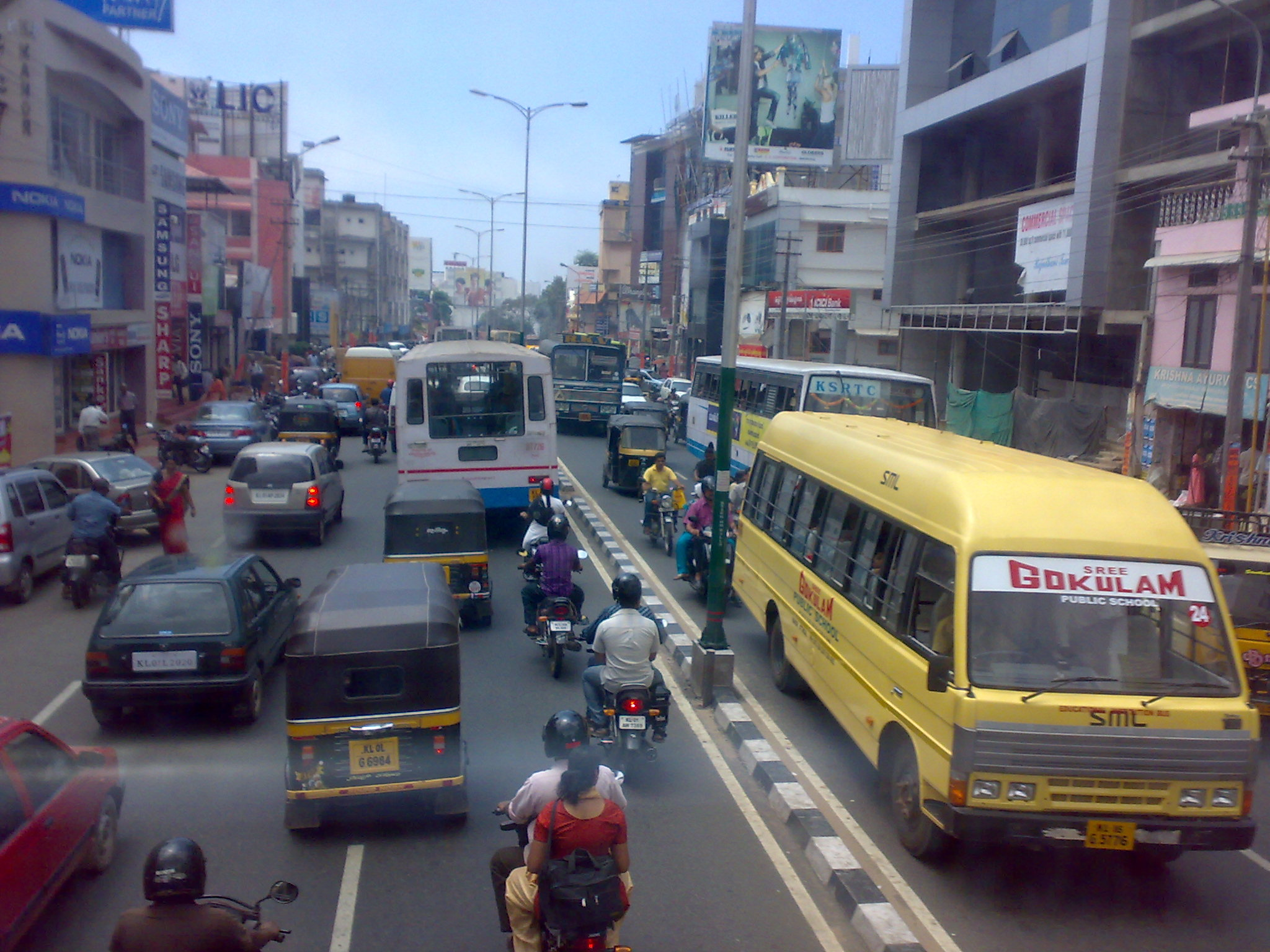 Trivandrum MG Road.